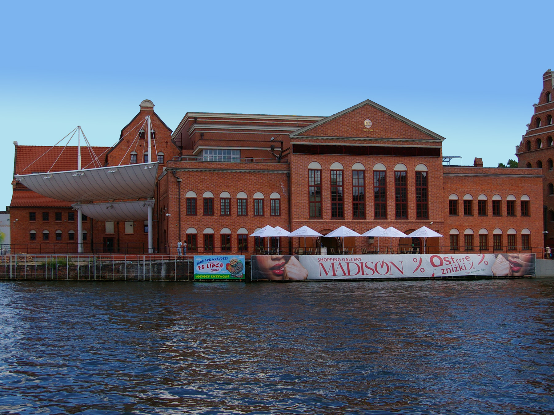 Frederick Chopin Polish Baltic Philharmonic in Gdańsk